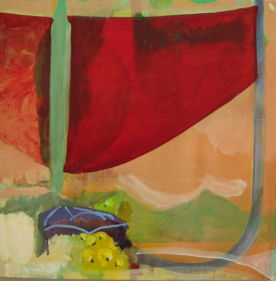 This is a photo (taken by Julian Hatton) of a painting created by artist Julian Hatton. It is entitled "Close to the Wizard of Oz". Date when painting created is uncertain.